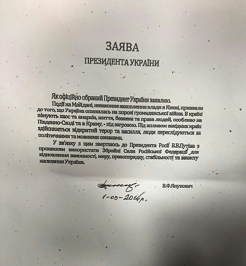 Letter from Yanukovych to Putin (2014-03-01)